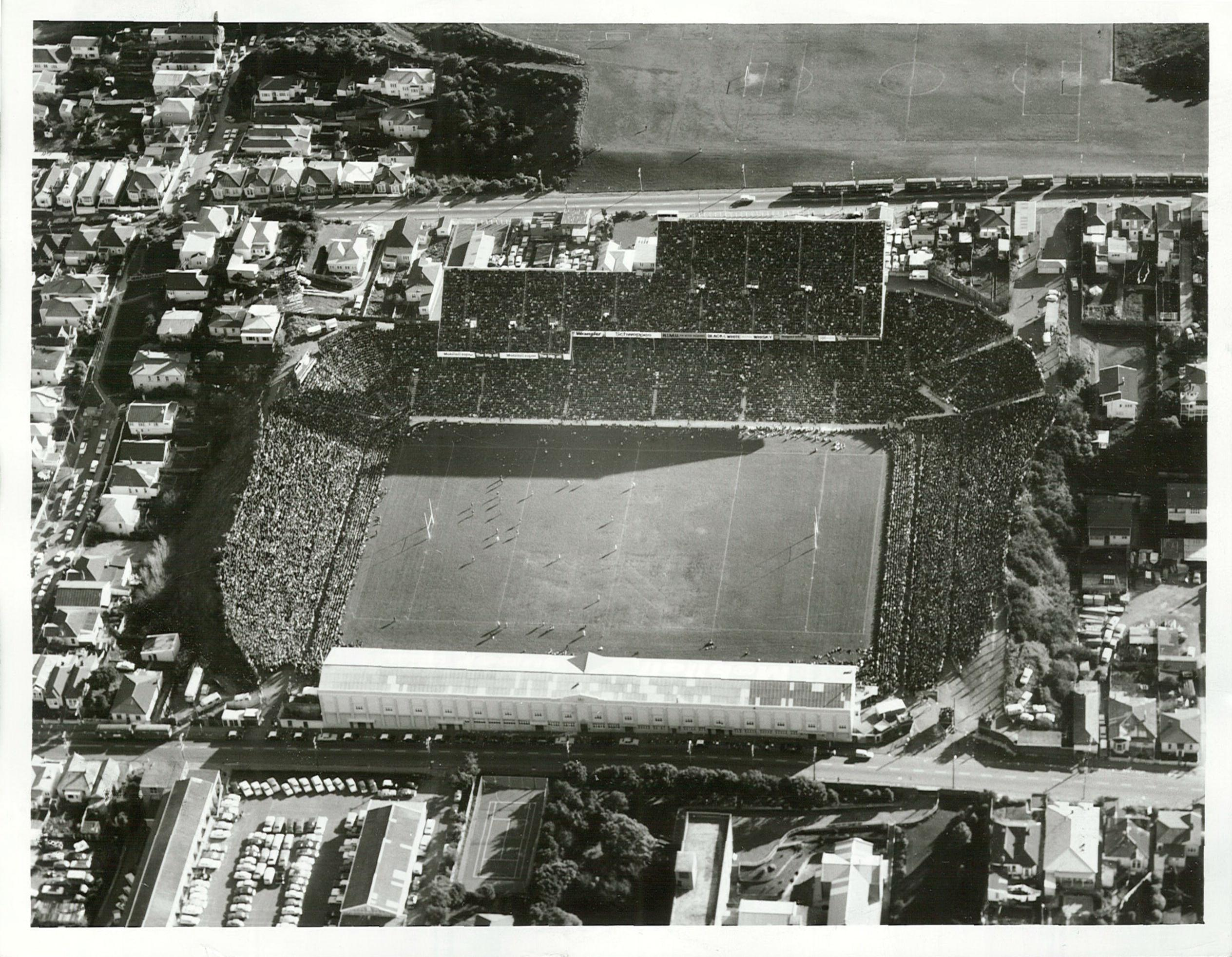 On 31 July 1971 the All Blacks matched off against the British Lions in their 3rd test of the series. The Lions went on to win the game, 13-3, and the whole series. This photo shows an aerial view of the game at Athletic Park, Wellington. Taken by R. Anderson of the National Publicity Studios, it includes streets and houses of the surrounding Newtown suburb. Description: Athletic Park, Wellington. All Blacks vs. Lions, 3rd Test 31 July 1971 - Lions won 13-3 Photographer: R. Anderson Date: July 1971 Archives Reference: AAQT 6539 W3537 113 A97247 For further enquiries please For updates on our On This Day series and news from Archives New Zealand, follow us on Twitter Material from Archives New Zealand